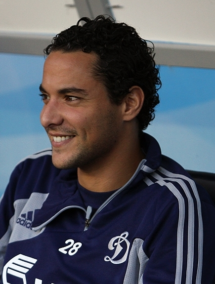 Otman Bakkal